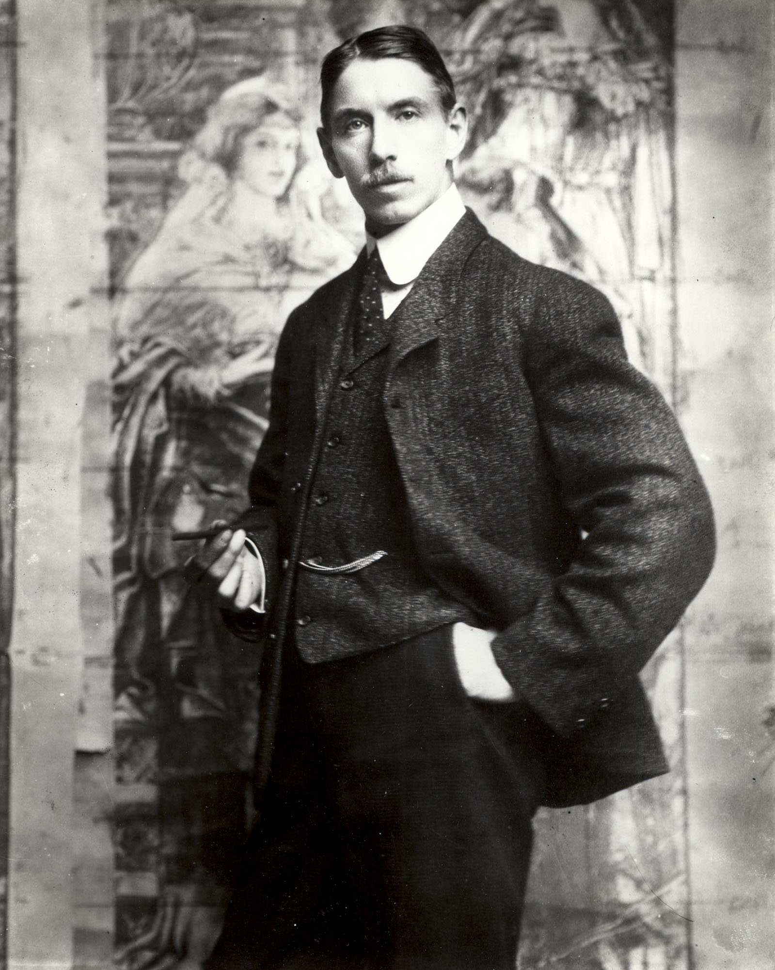 American stained glass artist William Willet before a cartoon for the Wise and Foolish Virgins